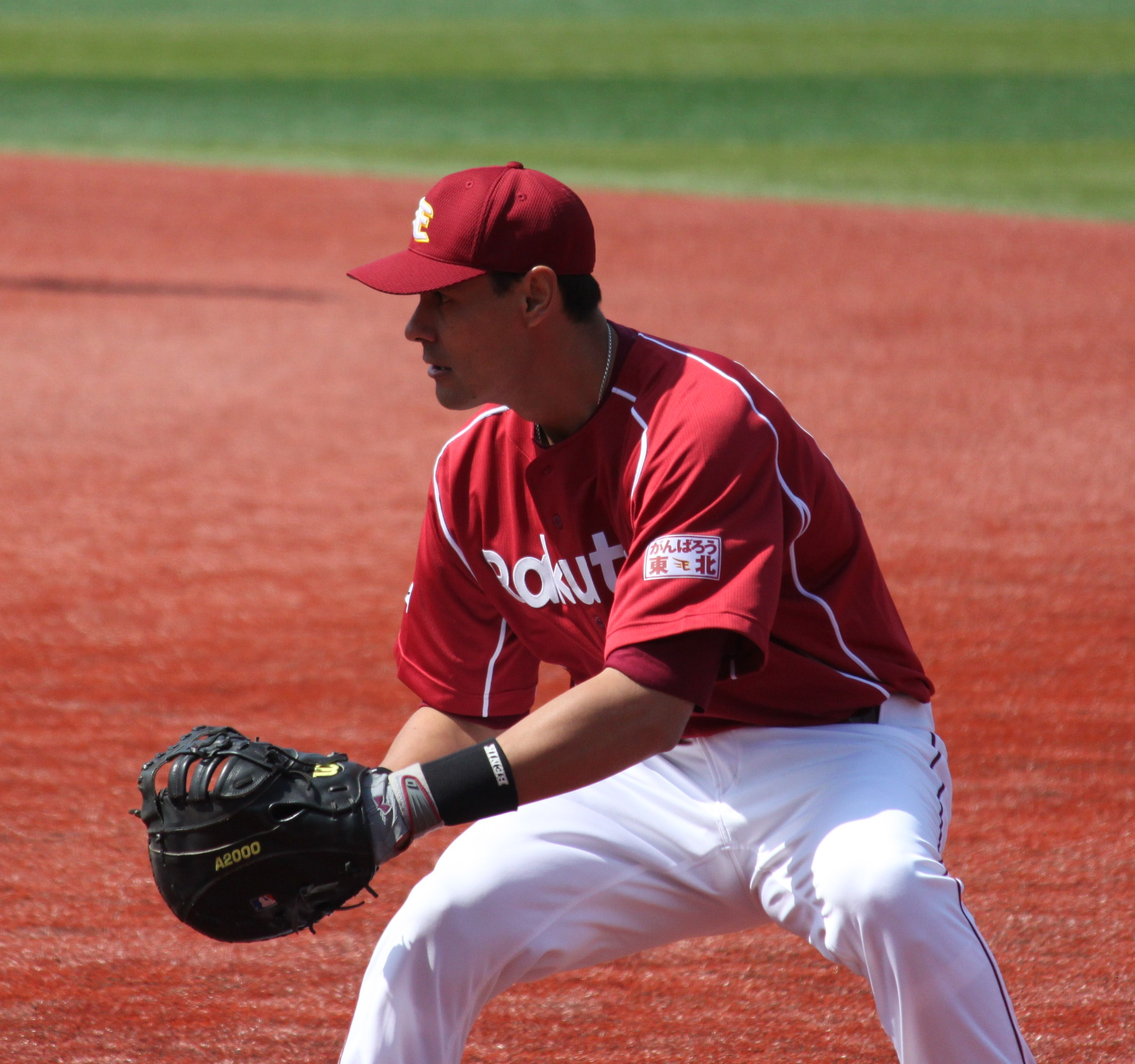 Luis García, infielder of the Tohoku Rakuten Golden Eagles, at Yokohama Stadium.